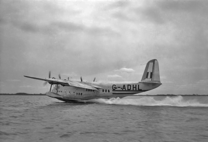 Short S.23 Empire (G-ADHL), BOAC, Lagos, c. 1941/1943